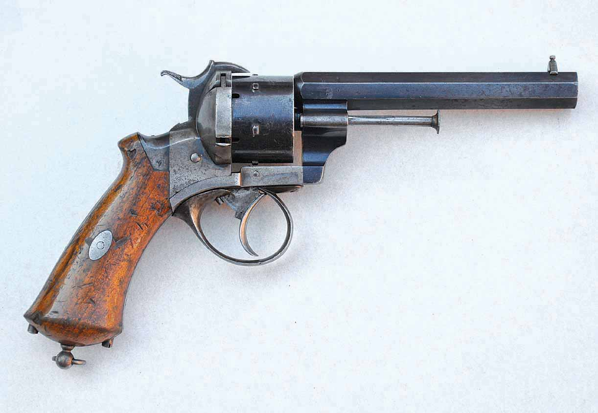 Norsk selvspent Lefaucheux revolver M/1864 for offiserer (åttekantet løp)